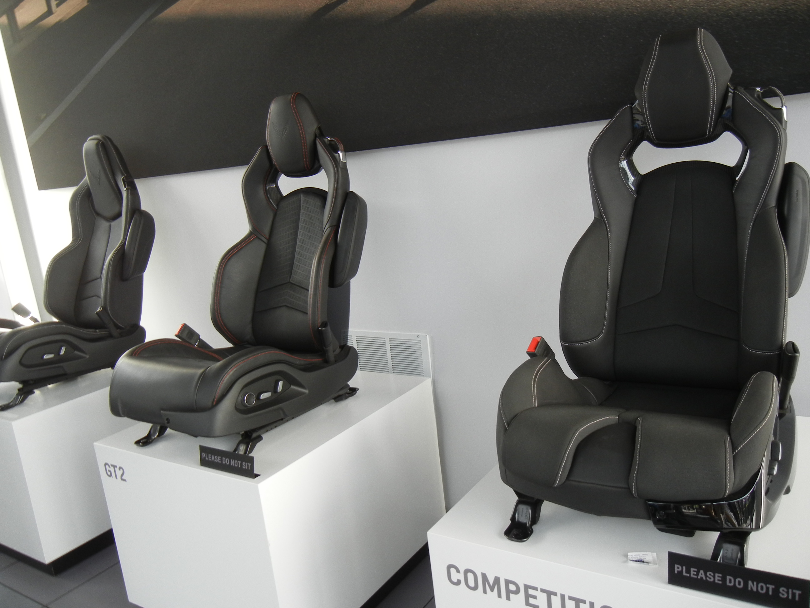 2020 corvette c8 seat options